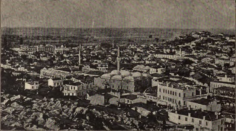 Historia tēs Hellados met' eikonōn apo tōn archaiotatōn chronōn mechri tēs basileias tou Othōnos (1898) Author: Spyridōn Paulou Lampros Publisher: Mpek Year: 1898 Possible copyright status: NOT_IN_COPYRIGHT Language: Greek Digitizing sponsor: Google Book contributor: unknown library Collection: americana